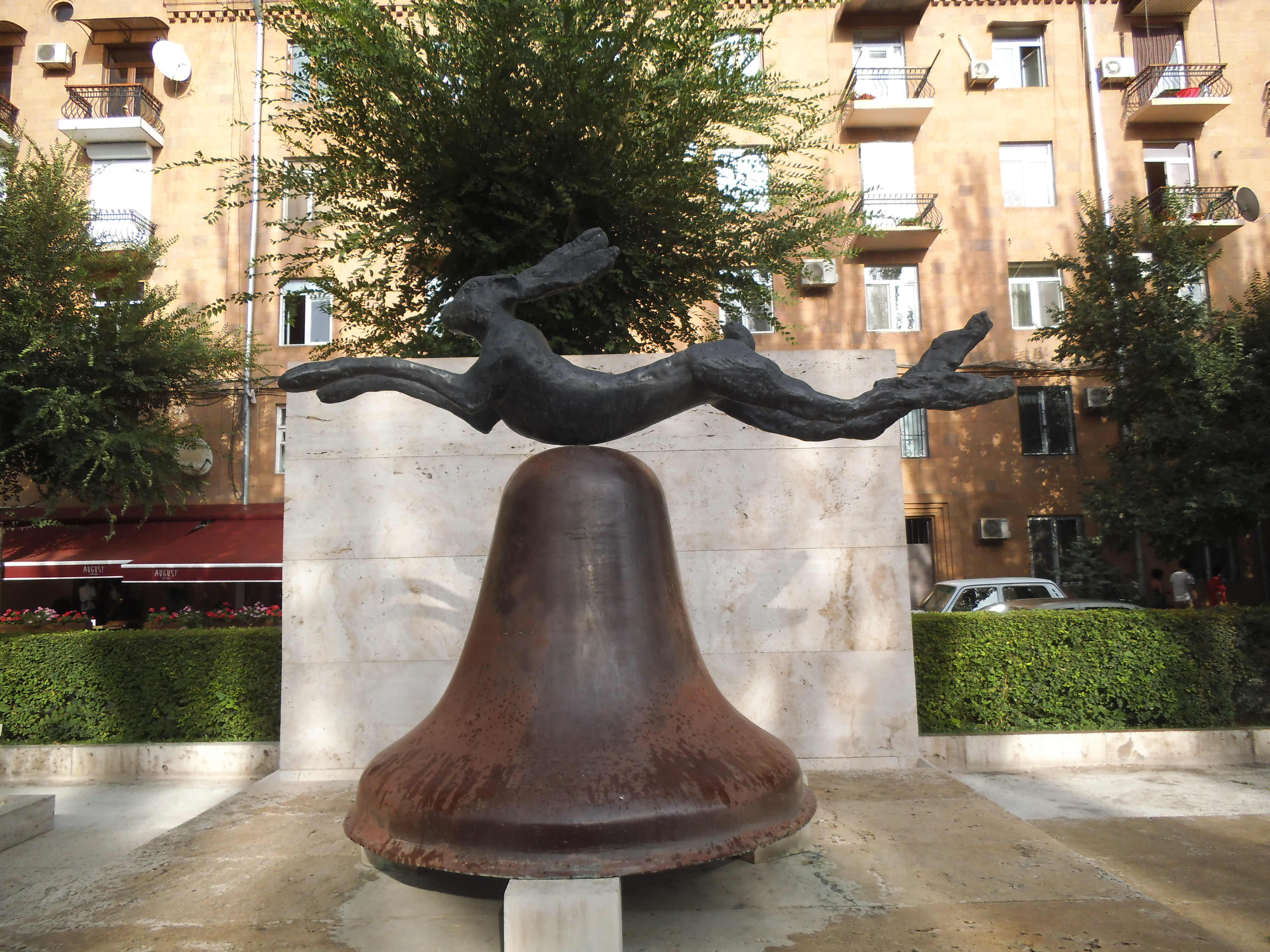 The statue "Hare on Bell on Portland Stone Piers" from 1983 by Barry Flanagan in Yerevan on the 26th of August 2016.